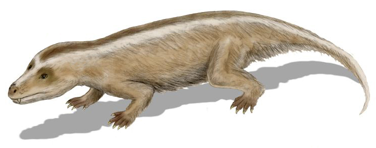 Tritylodon longaevus, a cynodont from the Early Jurassic of South Africa, pencil drawing